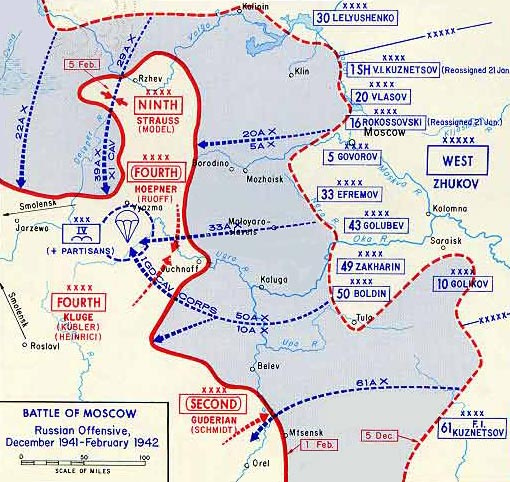 Map of the Soviet 1941-1942 winter counteroffensive.